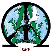 Logo of Kampanjen mot verneplikt (Norwegian Campaign against Conscription)